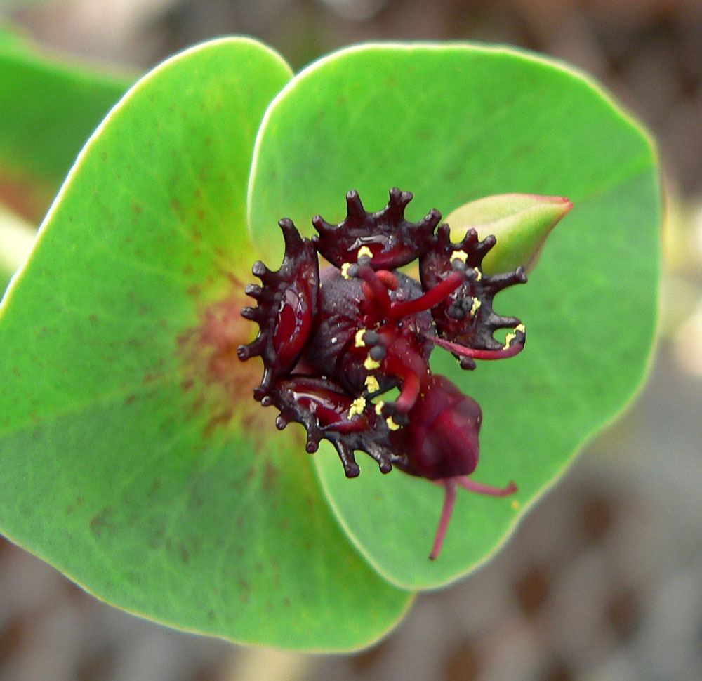 Euphorbia monteiri at the University of California Botanical Garden, Berkeley, California